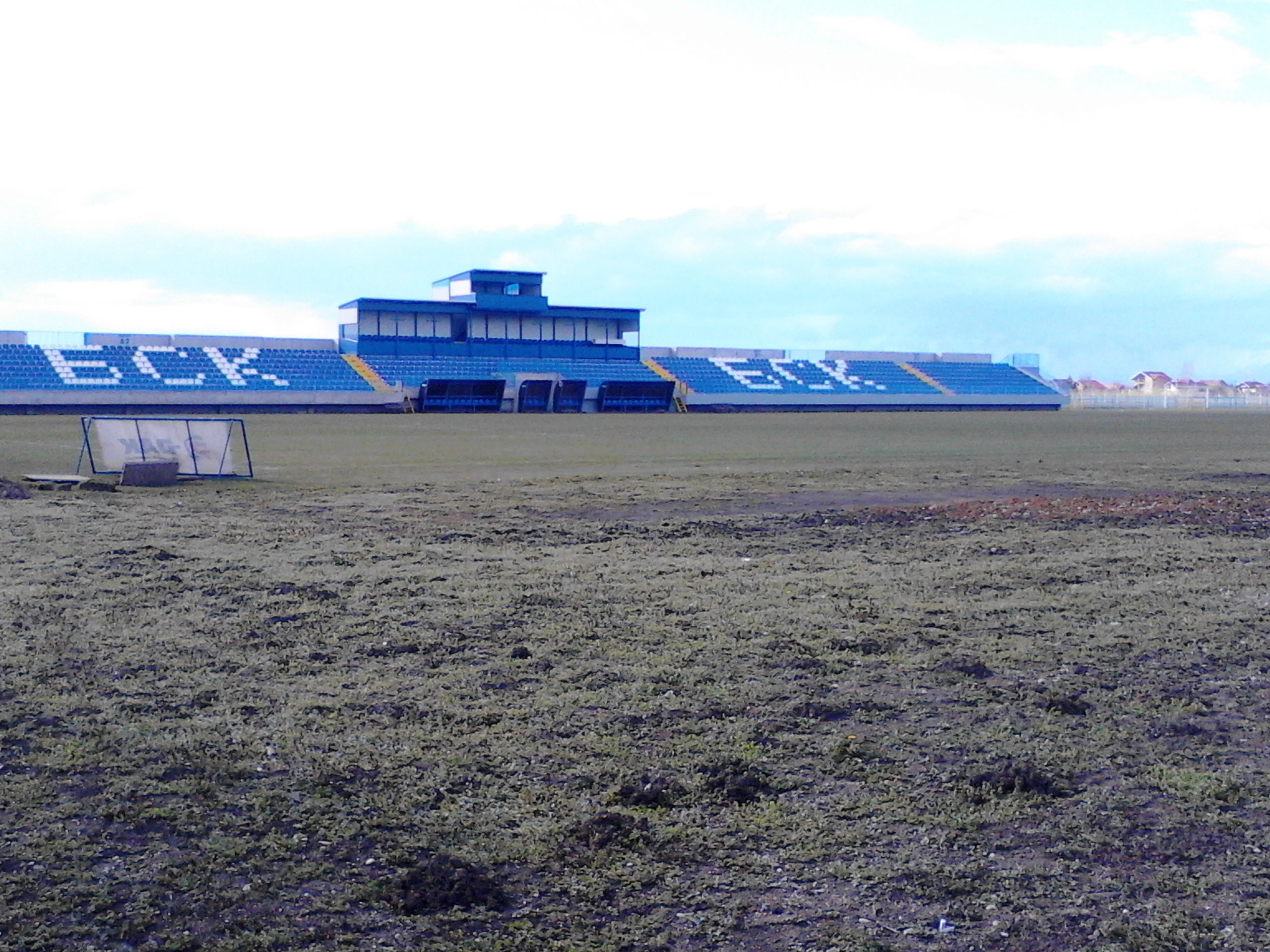 Stadium of BSK Borca "Vizelj park".Српски (ћирилица): Стадион БСК Борче „Визељ парк“.